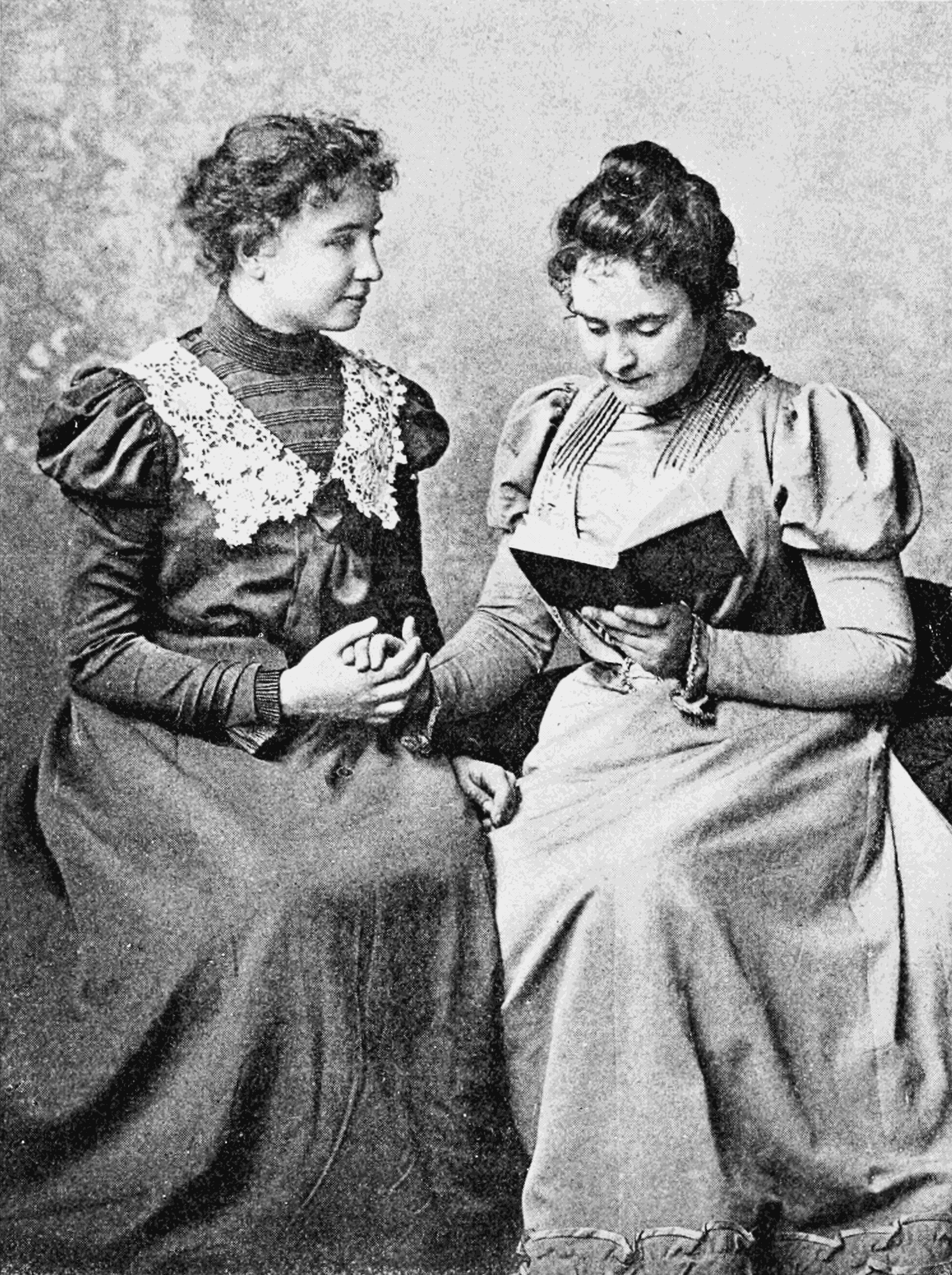 Helen Keller and Miss Sullivan